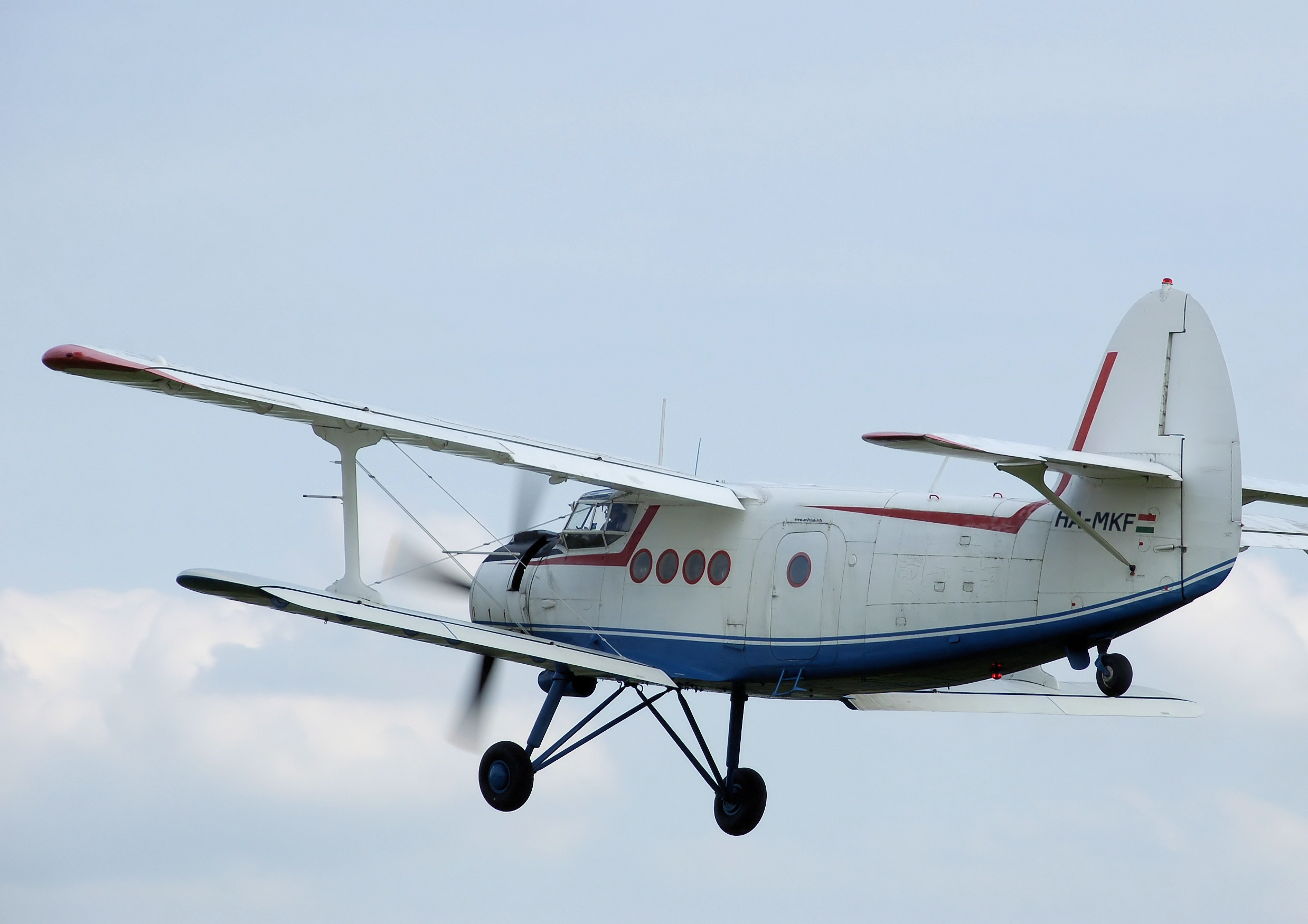 Antonov An-2 biplane (with Hungarian registration HA-MKF) takes off from the Great Vintage Flying Weekend (a gathering of vintage light aircraft) at Kemble Airport, Gloucestershire, England. Photographed by Adrian Pingstone in May 2009 and released to the public domain.